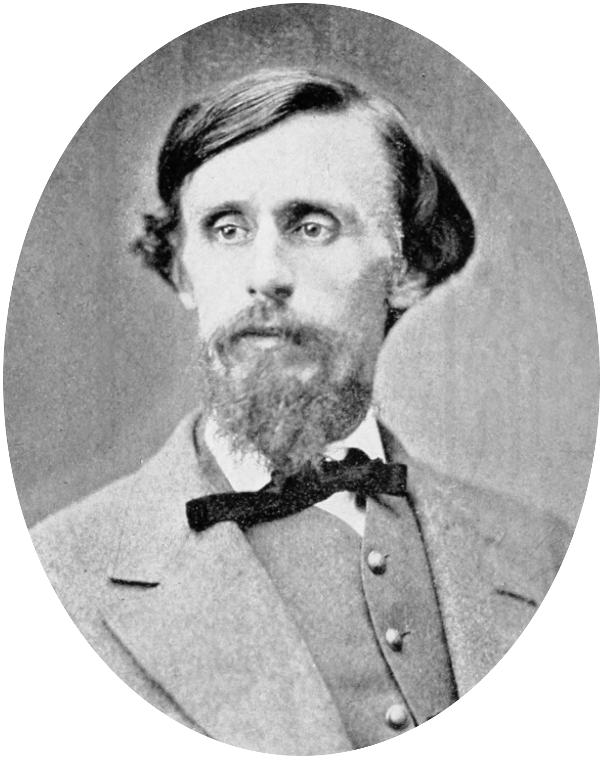 Marshall McDonald (October 18, 1835 – September 1, 1895) was an American engineer, geologist, mineralogist, and fisheries scientist. McDonald served as the commissioner of the United States Commission of Fish and Fisheries from 1888 until his death in 1895. He is best known for his inventions of a number of fish hatching apparatuses and a fish ladder that enabled salmon and other migrating fish species to ascend the rapids of watercourses resulting in an increased spawning ground. McDonald's administration of the U.S. Commission of Fish and Fisheries was notably free of scandal and furthered the "protection and culture" of fish species throughout the United States.